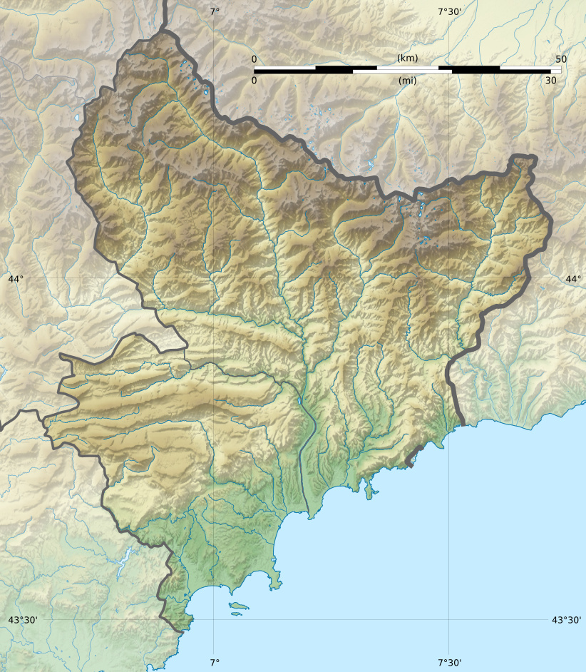 Blank physical map of the department of Alpes-Maritimes, France, for geo-location purpose.